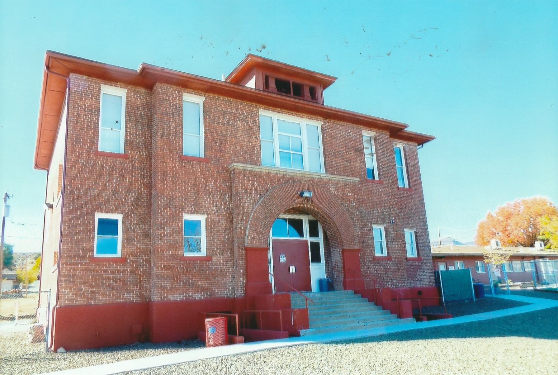 Mayer Red Brick Schoolhouse built in 1914 in Mayer, Az.